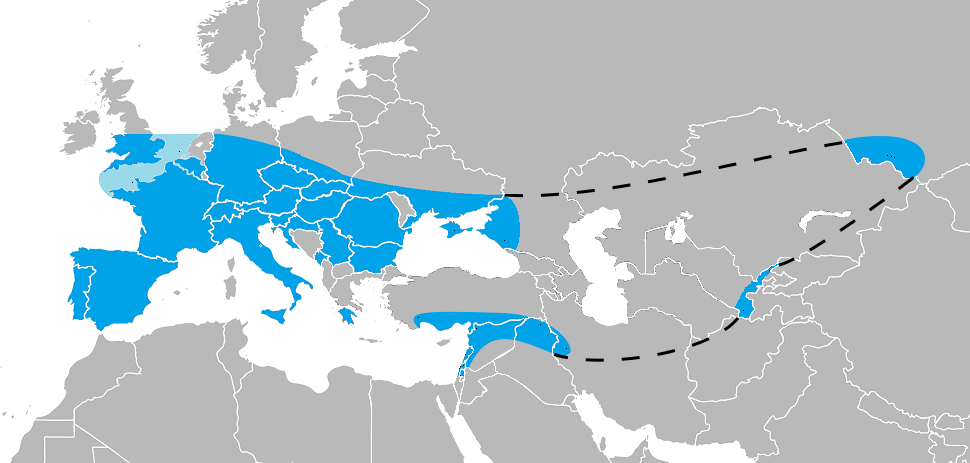 The known range of Neanderthals, as estimated with their identifiable bones only (not stone tools). For sources and a long description, see the colour version, which is also more up-to-date: The known range of Neanderthals in Europe (blue), Southwest Asia (orange), Uzbekistan (green), and the Altai Mountains (violet).